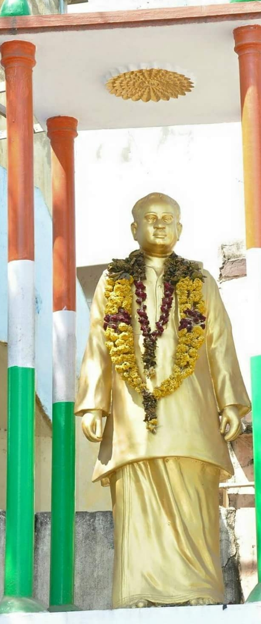 Congress leader